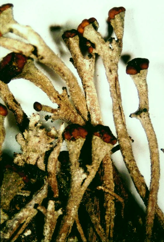 Cladonia rei Schaerer, 1823 [Synonyms: Cladonia subulata (L.) Weber ex F.H. Wigg., 1780 (see Spier & Aptroot 2007); Cladonia nemoxyna (Ach.) Arnold, 1888] (photograph of a herbarium specimen taken through a dissecting microscope (x6) showing podetia) Growing on soil of an old apple orchard at the Maryland Ornithological Society Sanctuary at Carey Run, 3.5 miles WNW of Frostburg, Garrett County, Maryland, USA; collected and identified by B. Ball and A. Norden (Cladonia nemoxyna, No. L-74, 1 Jan 1973), annotated by Allen C. Skorepa; specimen is now in the Lichen Herbarium of the New York Botanical Garden.